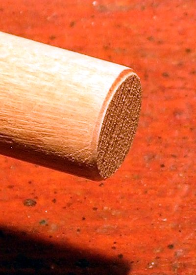 Chamfered end of wooden dowel